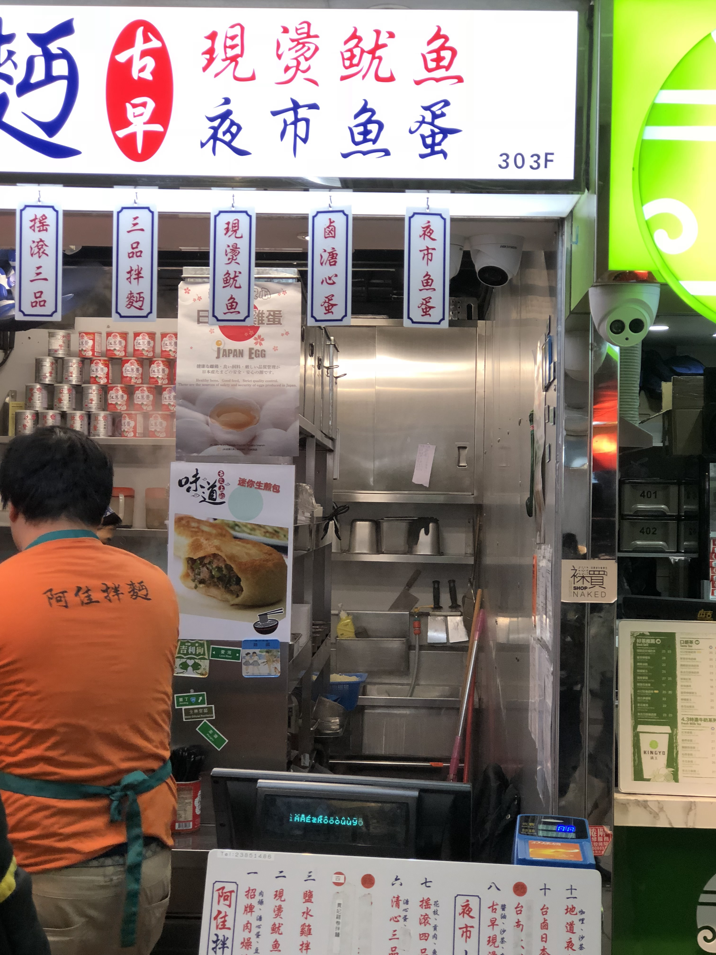 Shop that support the "Shop Naked" campaign